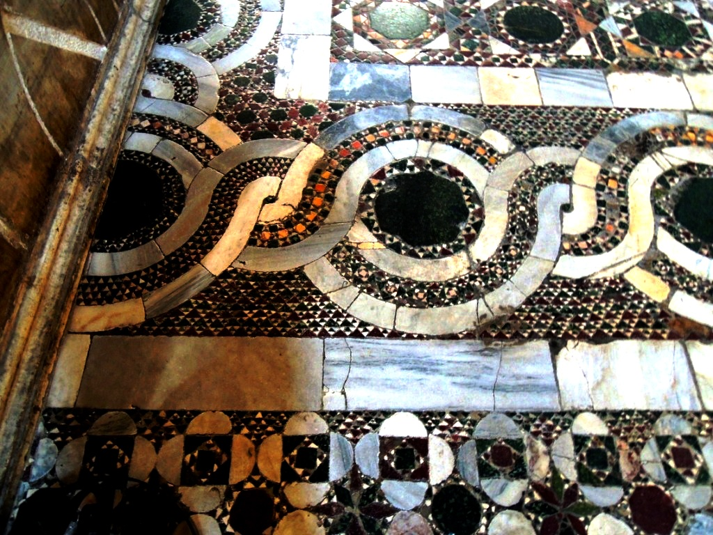 Roma, SM Aracoeli, cosmatesque floor mosaic (marbles)